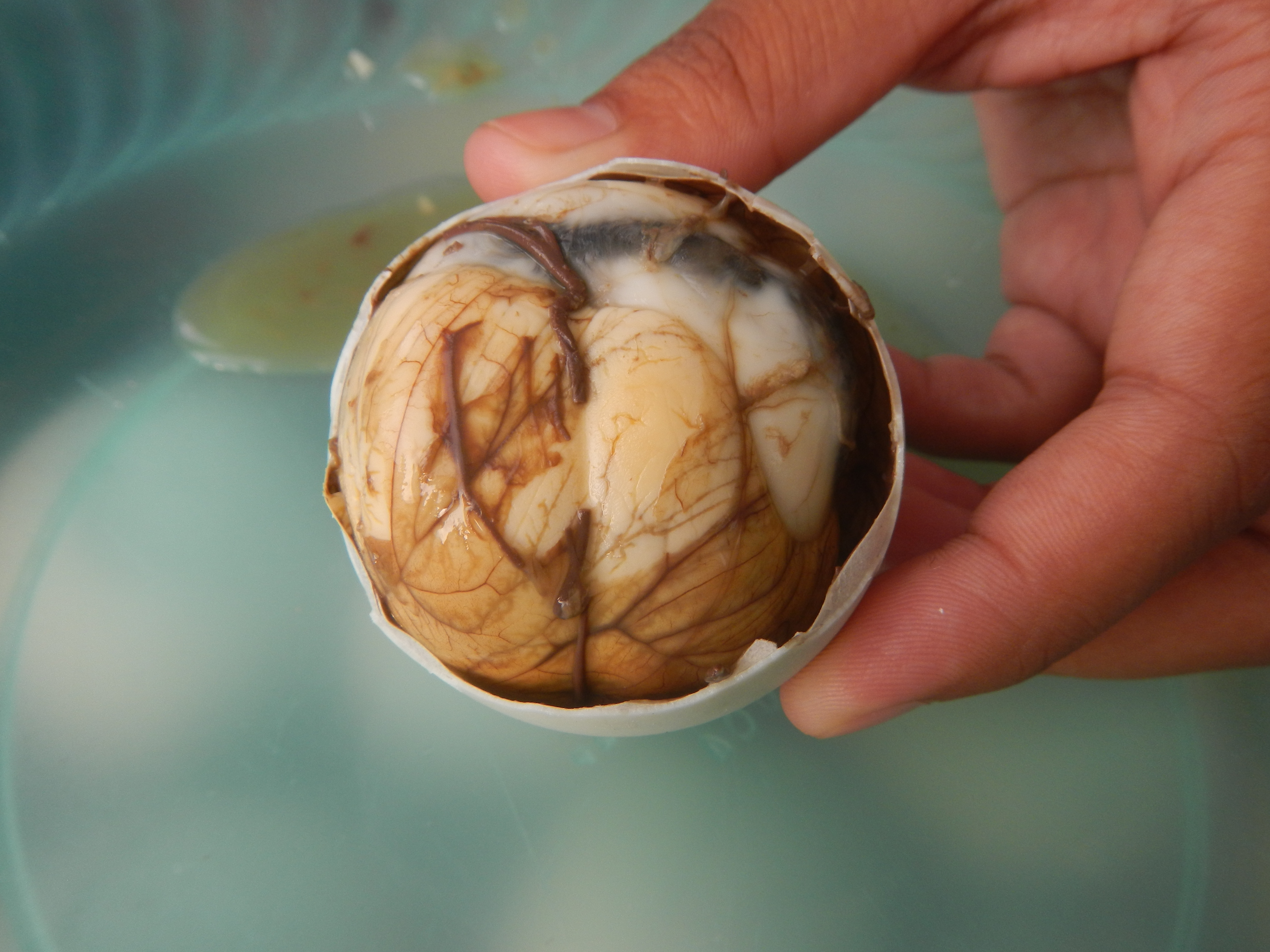 Takoyaki cooking Balut Penoy photos taken in Barangay Poblacion 14°57'17"N 120°54'2"E Baliuag, Bulacan, Bulacan province (Note: Judge Florentino Floro, the owner, to repeat, Donor Florentino Floro of all these photos Judge Floro hereby donate gratuitously, freely and unconditionally all these photos to and for Wikimedia Commons, exclusively, for public use of the public domain, and again without any condition whatsoever).